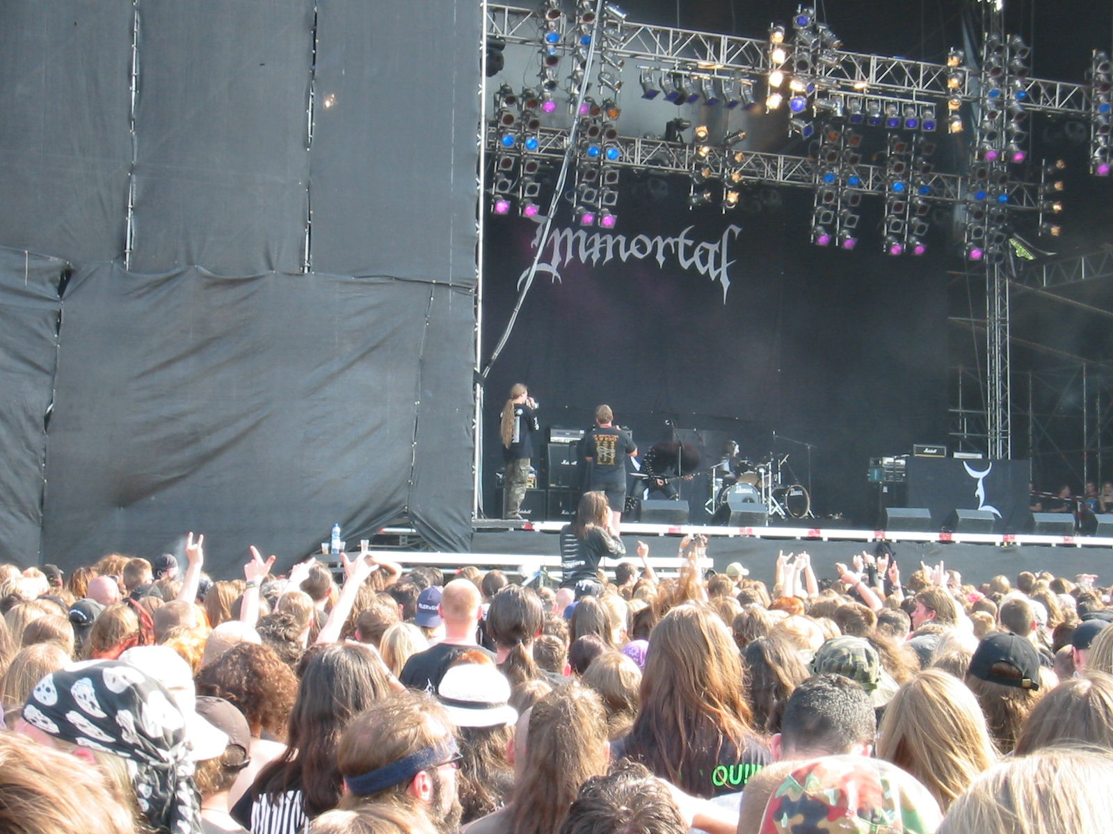 Immortal live at Wacken Open Air 2002